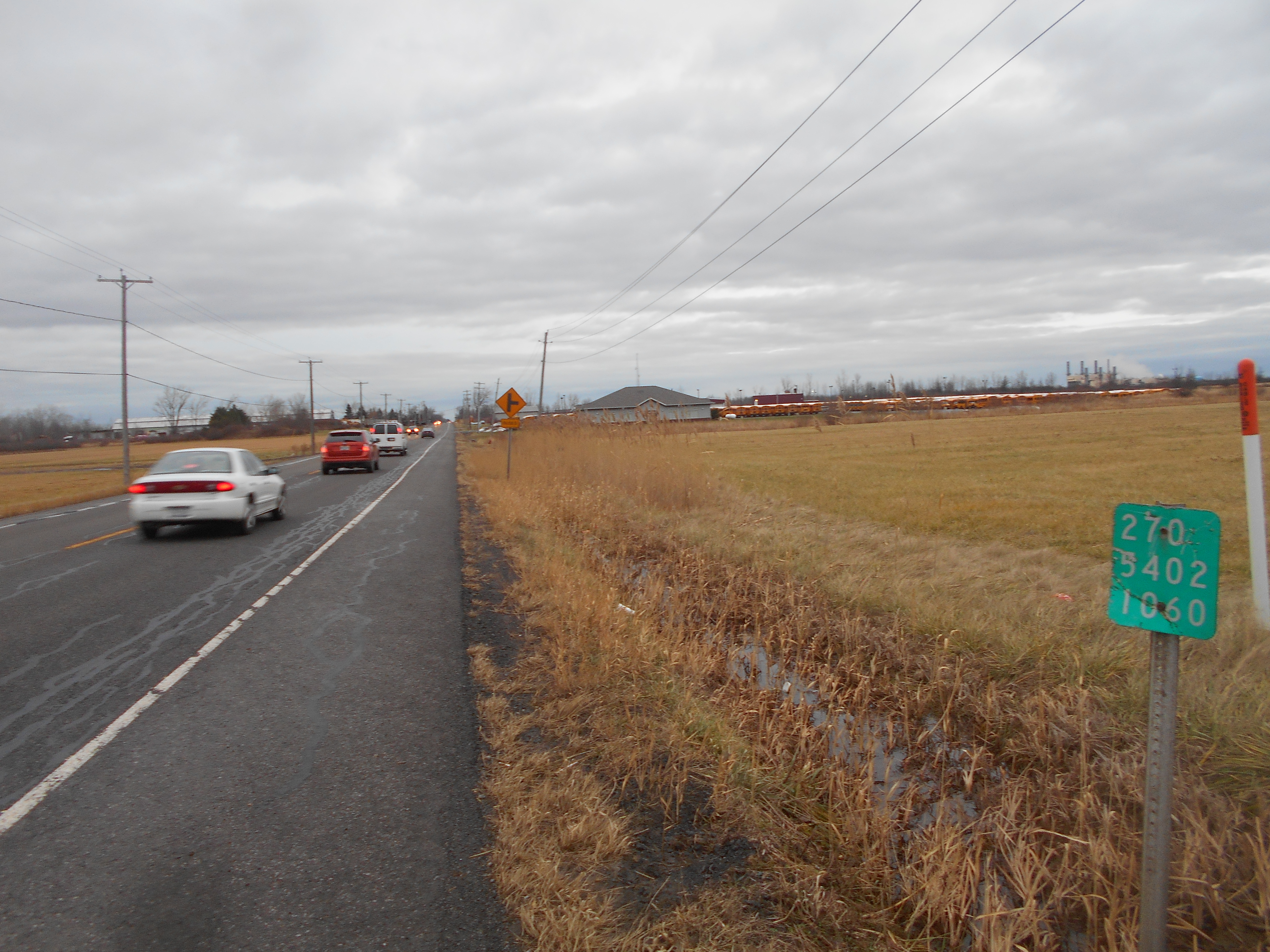 Reference markers for New York State Route 270 on New York State Route 93 in Cambria, New York.